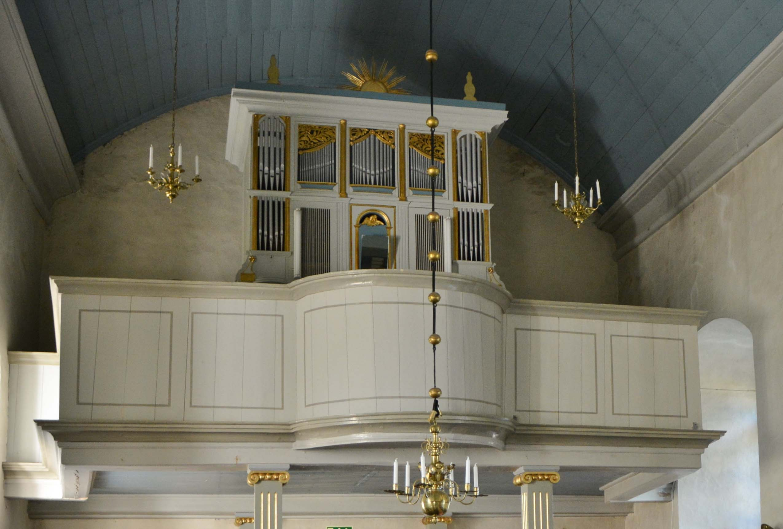 Egby Churh.The organ